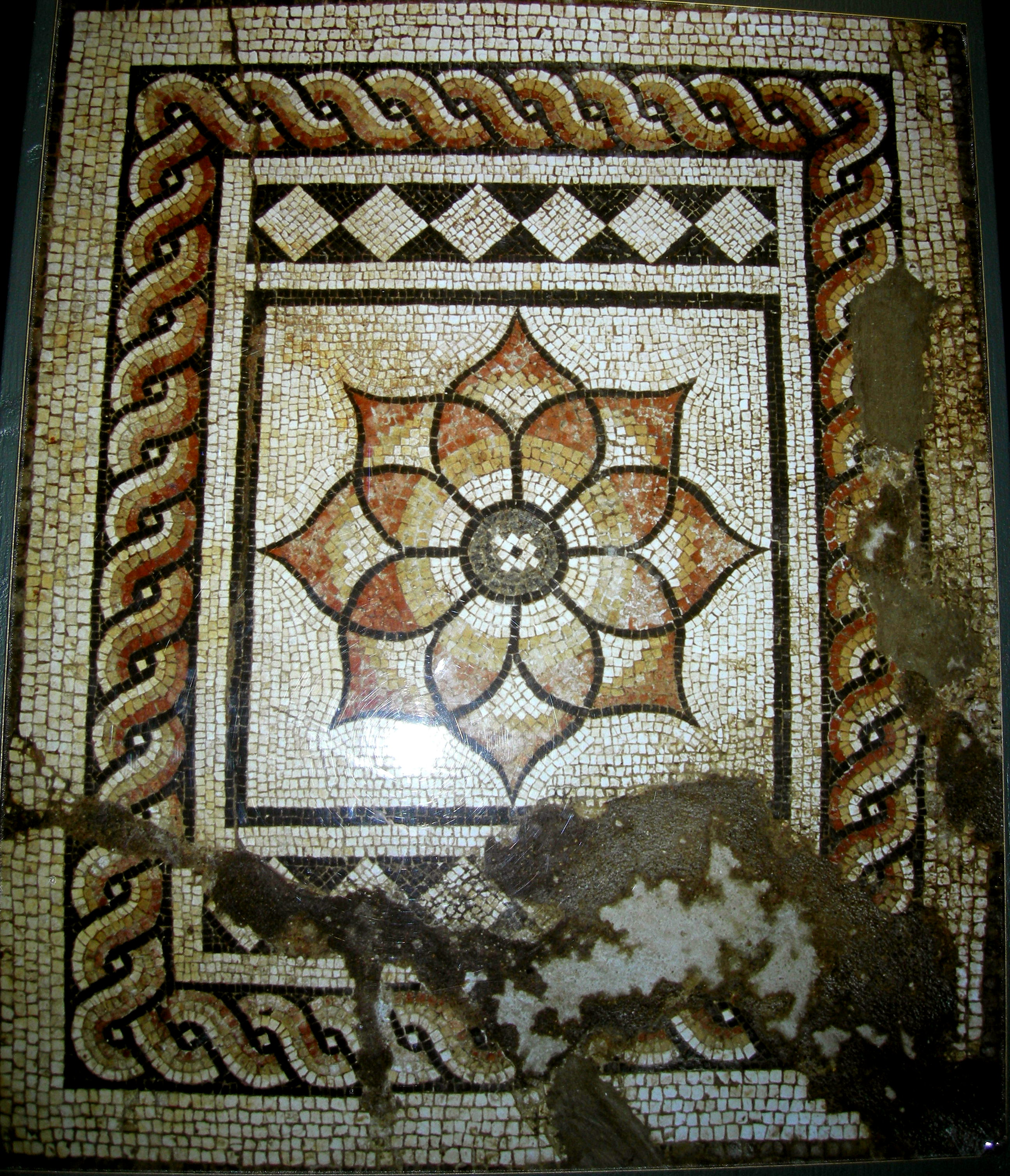 Roman Museum in Butchery Lane, Canterbury, Kent. Display showing one of the mosaic corridor panels. This panel was the first to be discovered - by a pickaxe, as demonstrated by the hole in it.